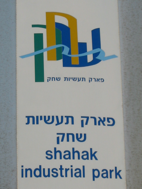 Picture taken of signpost of the industrial park